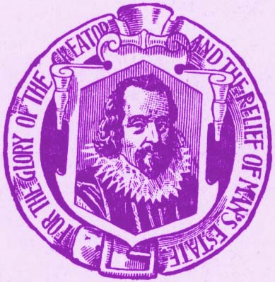 "For the Glory of the Creator and the relief of man's estate" - Francis Bacon, Advancement of Learning